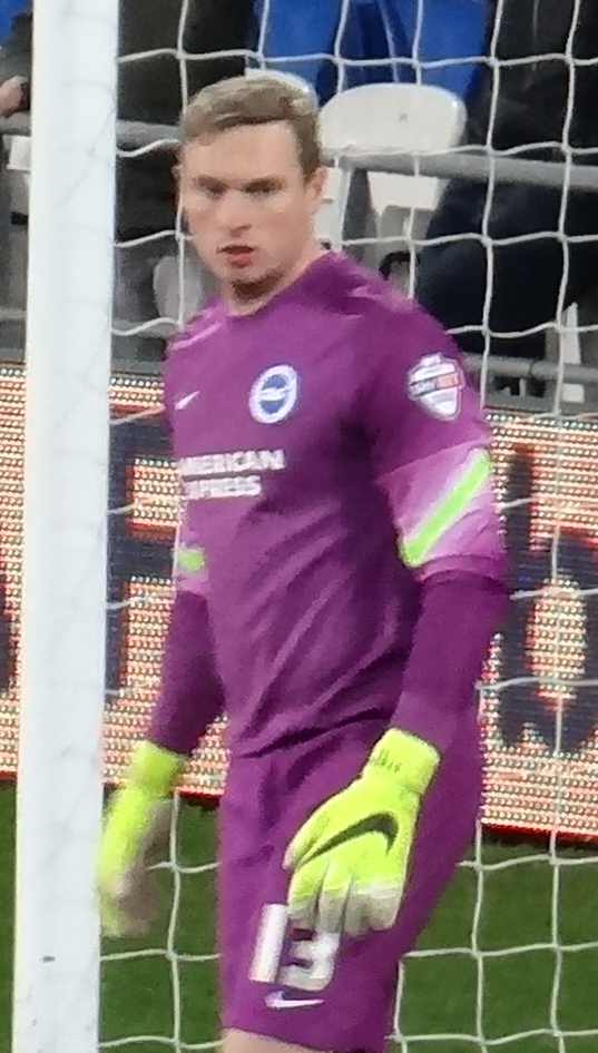 David Stockdale playing for Brighton & Hove Albion against Cardiff City at Cardiff City Stadium on 10 February 2015